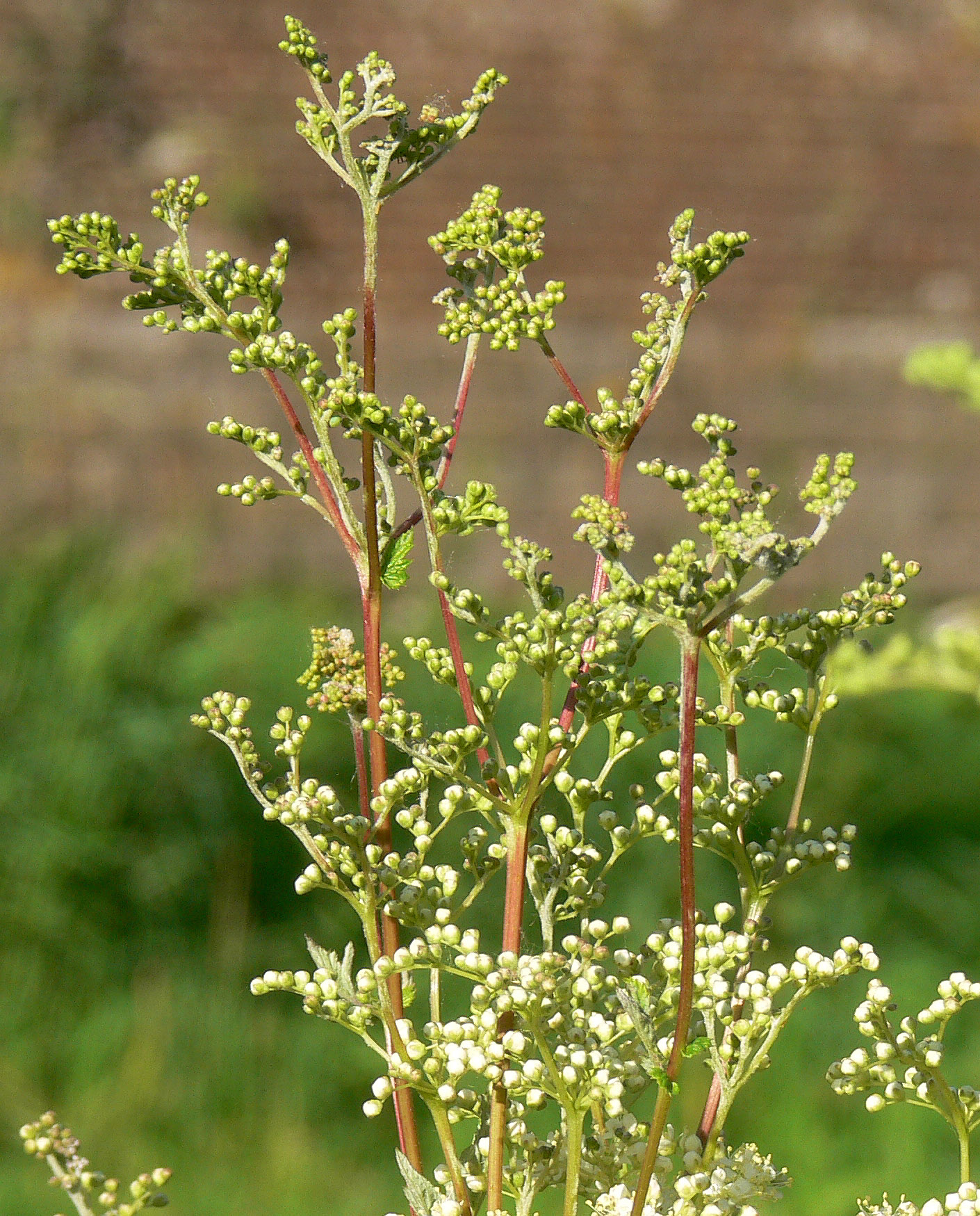 young flowers, Filipendula ulmaria (Lille, north of France)